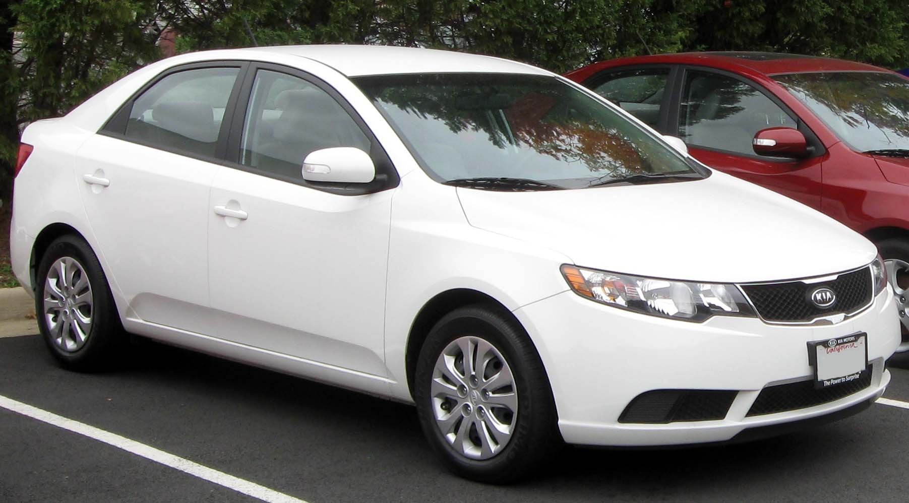 2010 Kia Forte photographed in Chantilly, Virginia, USA.